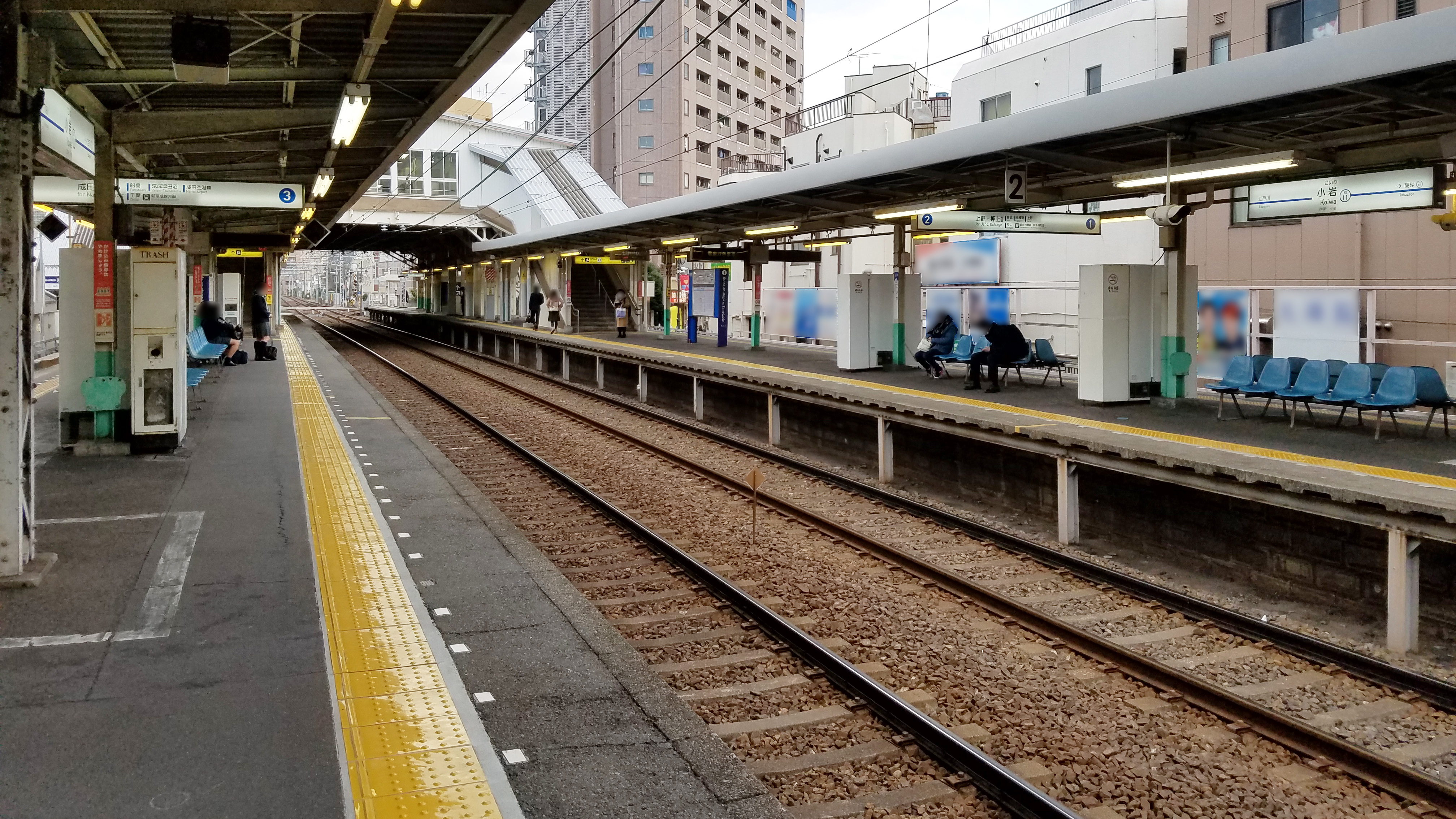 The platforms at Keisei Koiwa Station on the Keisei Main Line in Edogawa Ward, Tokyo, Japan